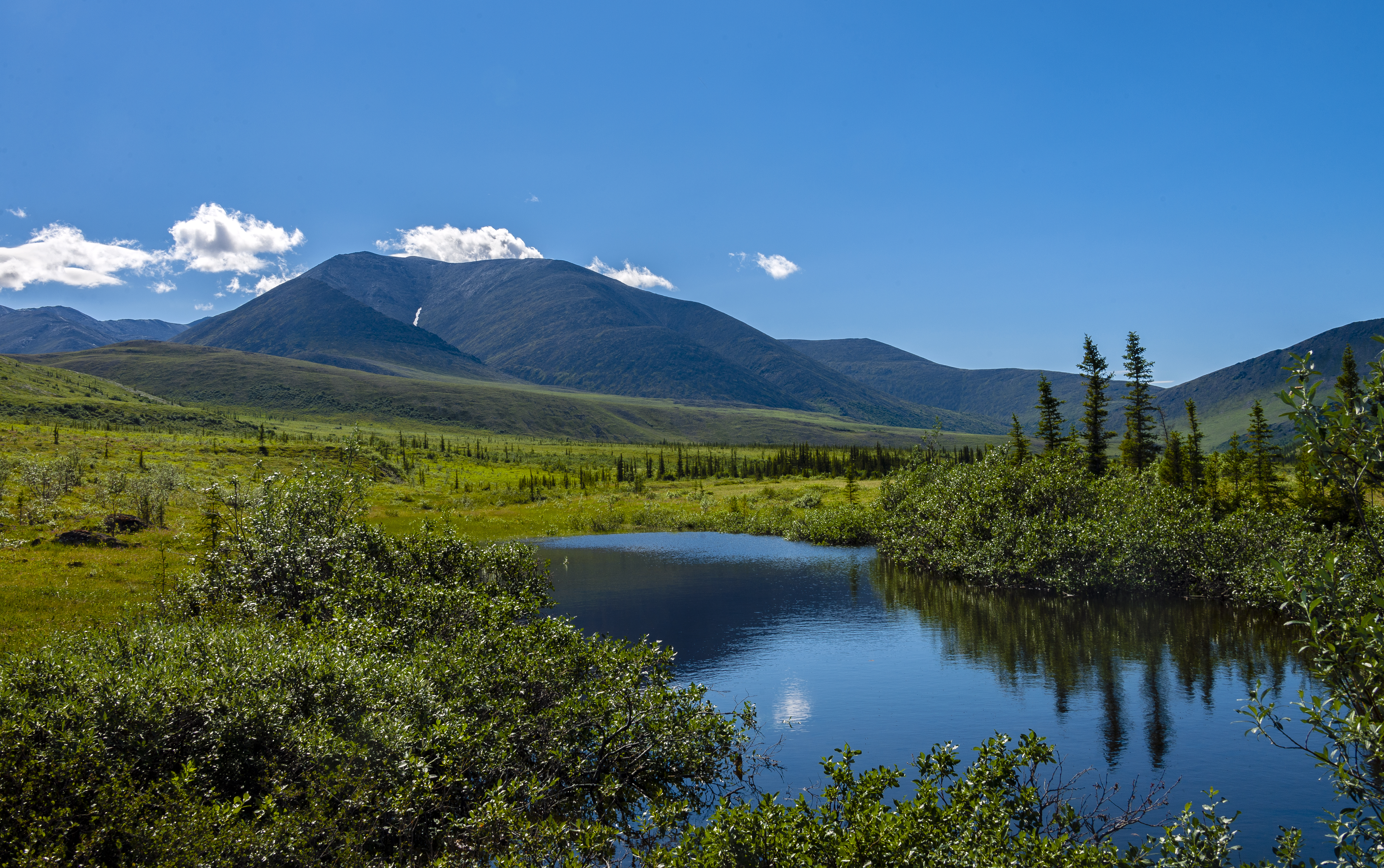 A small pond near the confluence of the Firth River and Wolf Creek in Canada's Ivvavik National Park